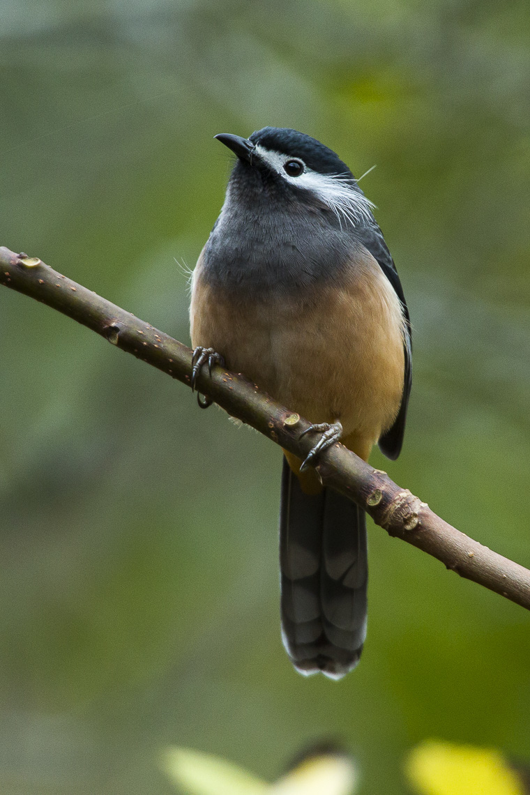 White-eared Sibia - Taiwan_S4E8153